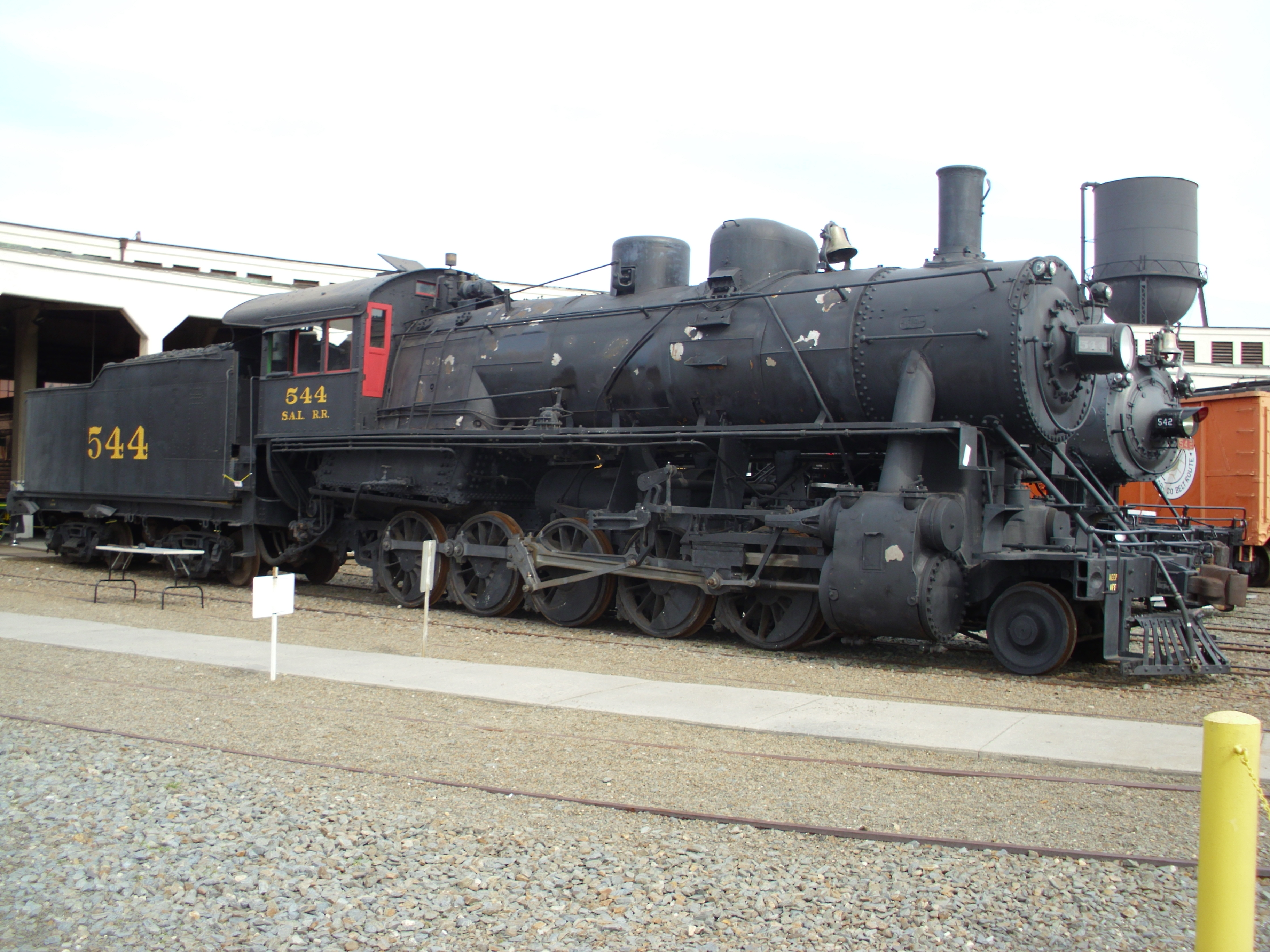 Seaboard Air Line No. 544, with Southern No. 542 behind it. 15 March 2014.